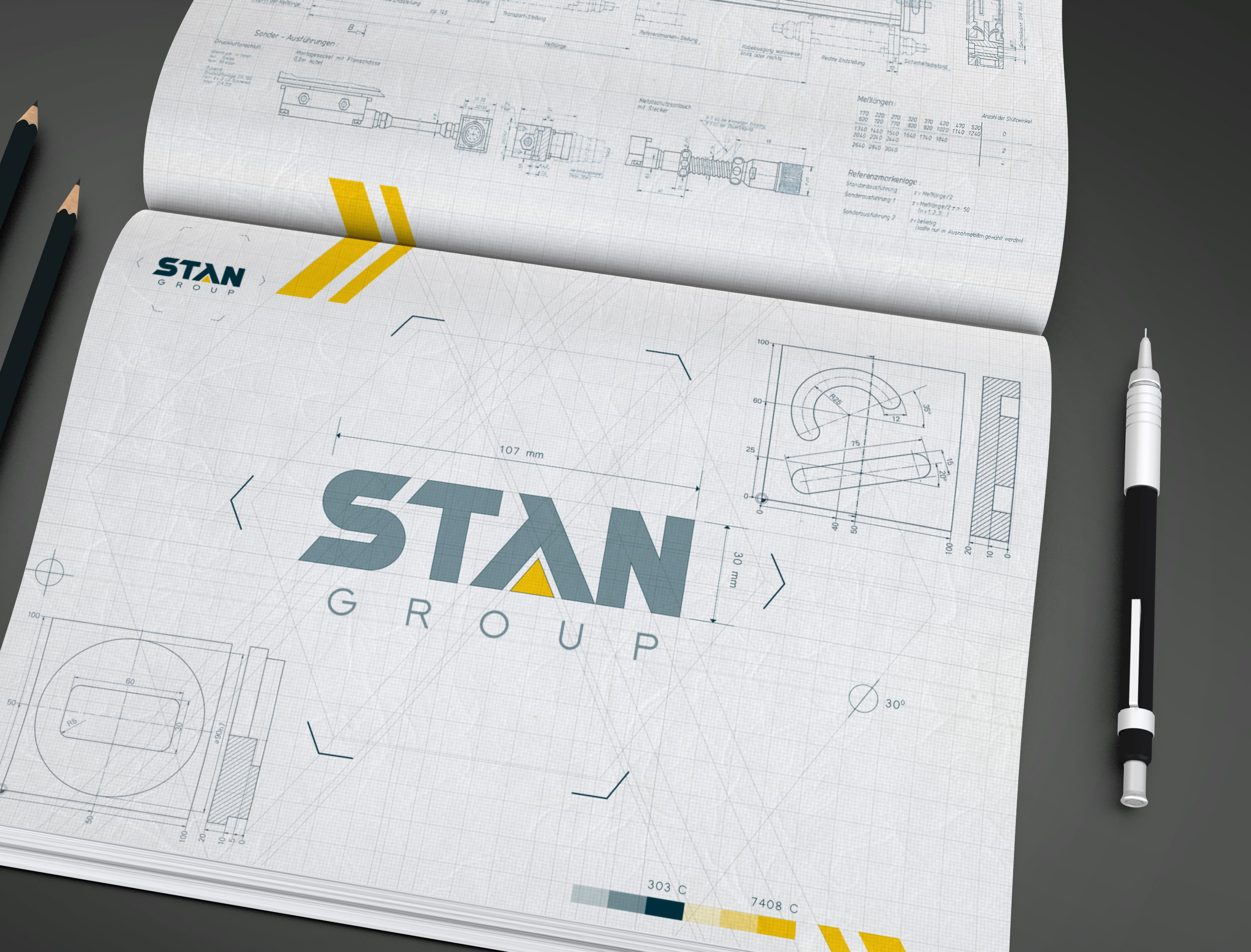 Example for STAN Group Brand Attributes (Identity) by Astro Design LLC